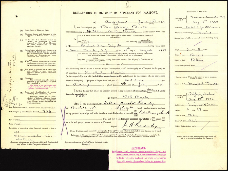 Archives New Zealand Reference: ACGO 8333 IA1 1350 / 15/11/30815